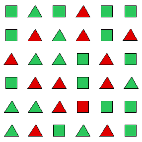 A feature conjunction, as described by Anne Treisman in her feature integration theory.